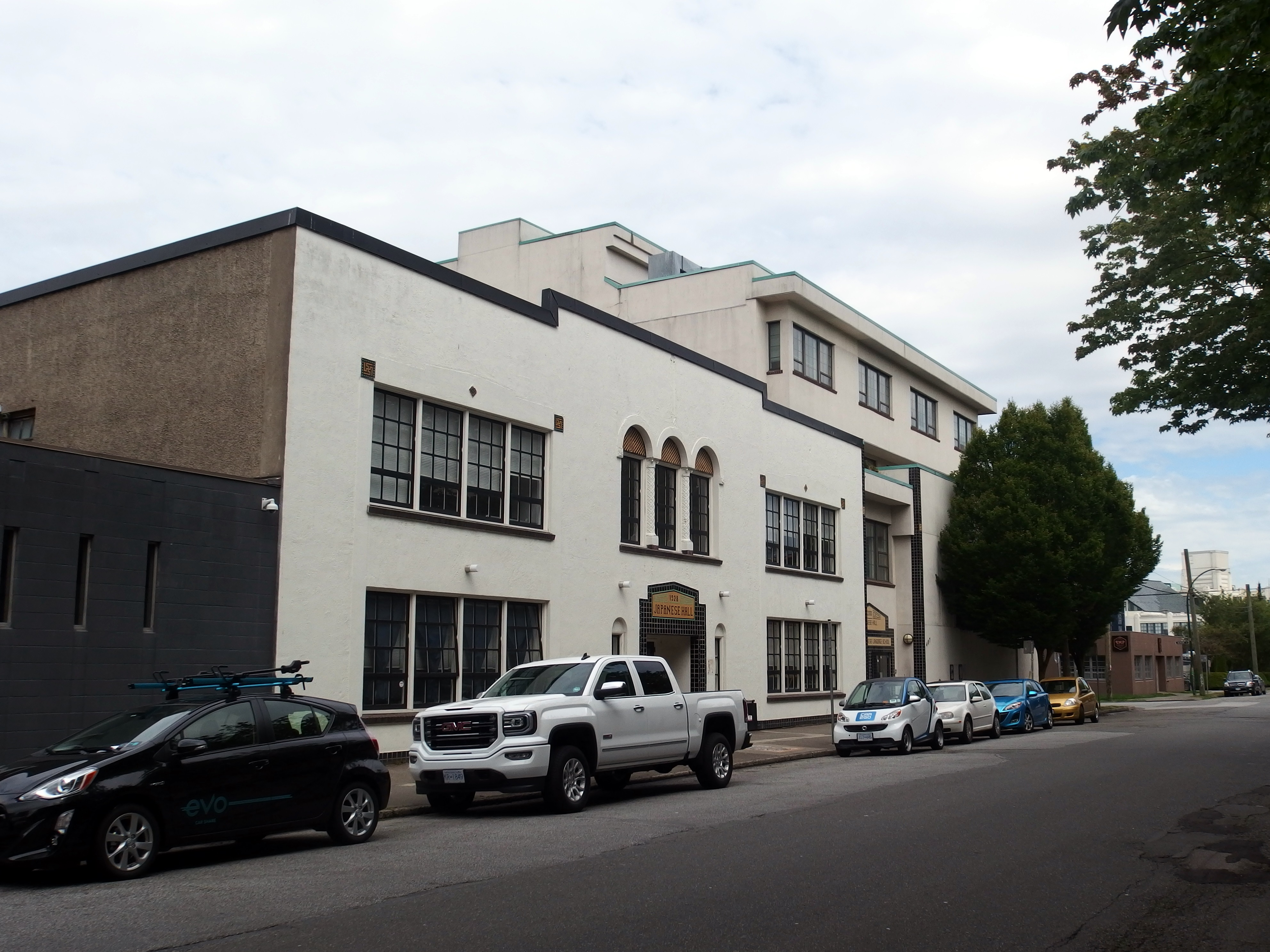 Vancouver Japanese Language School and Hall in Japantown, Vancouver, BC, Canada. 475 Alexander St and 487 Alexander St. Japanese Hall -- Vancouver Heritage Building Designation B(M)